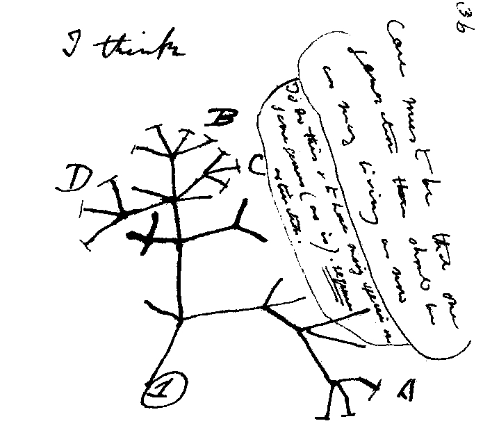 Charles Darwin's 1837 sketch, his first diagram of an evolutionary tree from his First Notebook on Transmutation of Species (1837) on view at the Museum of Natural History in Manhattan.